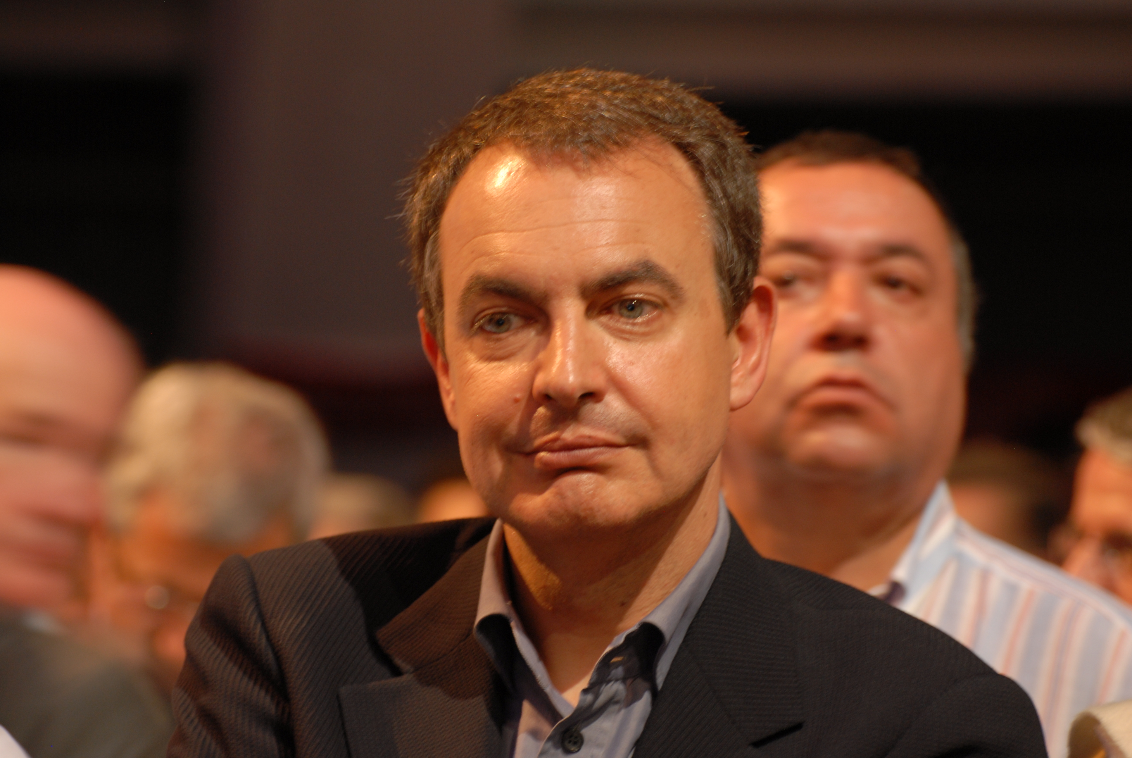 José Luis Rodríguez Zapatero during his meeting in Toulouse on April, 19th 2007 for the 2007 presidential election.